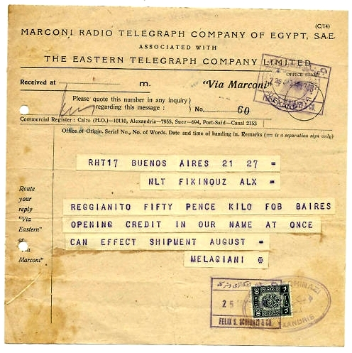 1948 telegram, Alexandria, Egypt.